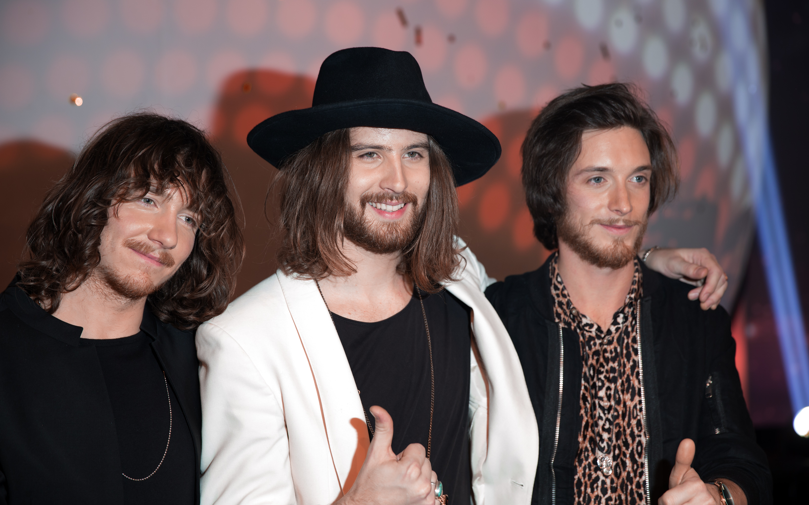 The Makemakes after the final show of the selection of the Austrian participant for the Eurovision Song Contest 2015; ORF center, Vienna,Austria.